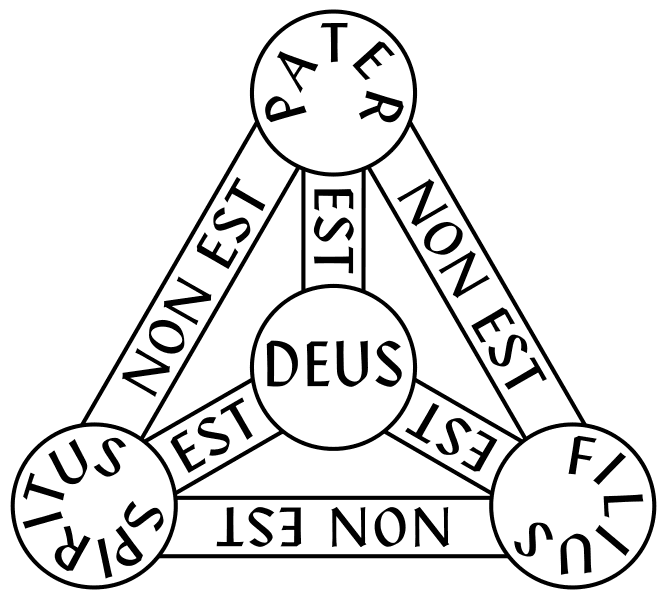 The "Shield of the Trinity" or "Scutum Fidei" diagram of traditional western Christian symbolism (a visual summary of the first part of the Athanasian Creed). This Latin-language version of the diagram has one vertex up (see the heraldic coat of arms of the Anglican bishopric (diocese) of Trinidad, in the Caribbean, at Image:Trinidad-Anglican-Episcopal-Coat-of-Arms.svg ). For other versions of the "Shield of the Trinity" or "Scutum Fidei" diagram, see Image:Shield-Trinity-medievalesque.png , Image:Shield-Trinity-Scutum-Fidei-basic.png , Image:Trinity knight shield.jpg , and the article Shield of the Trinity.